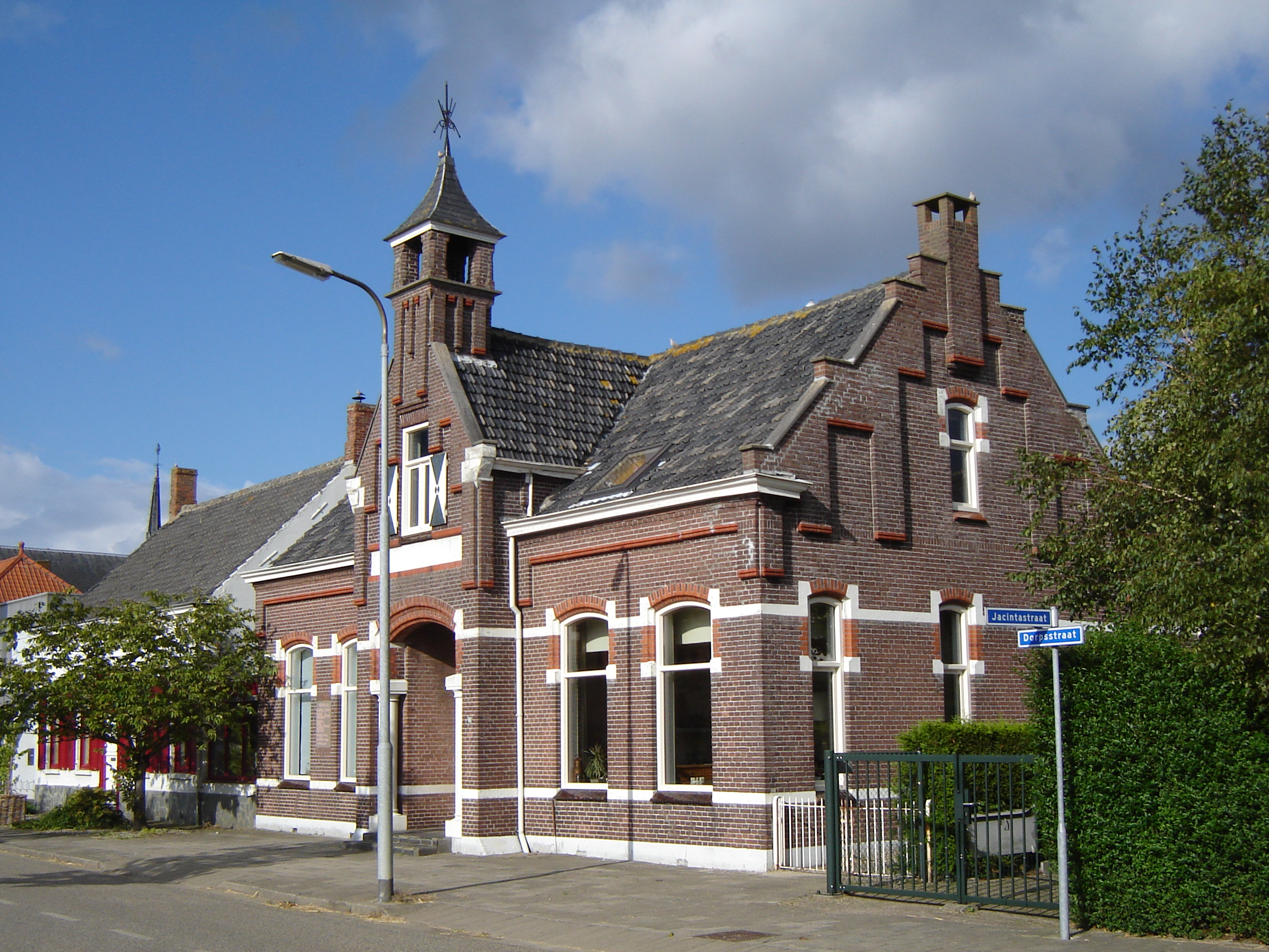 Former town hall of Graauw. Graauw, Hulst, Zeeland, the Netherlands